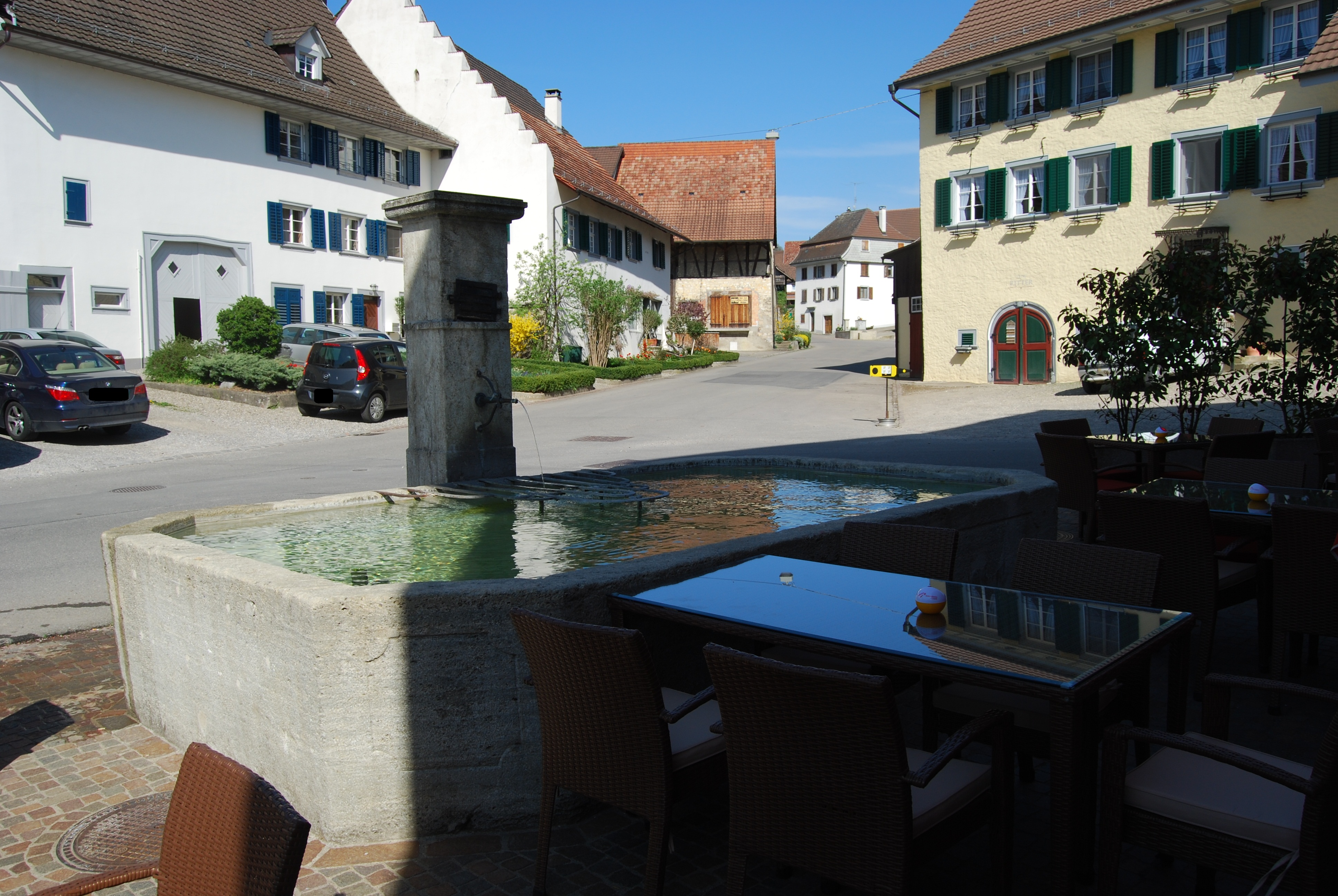 Wilchingen, canton of Schaffhausen, Switzerland